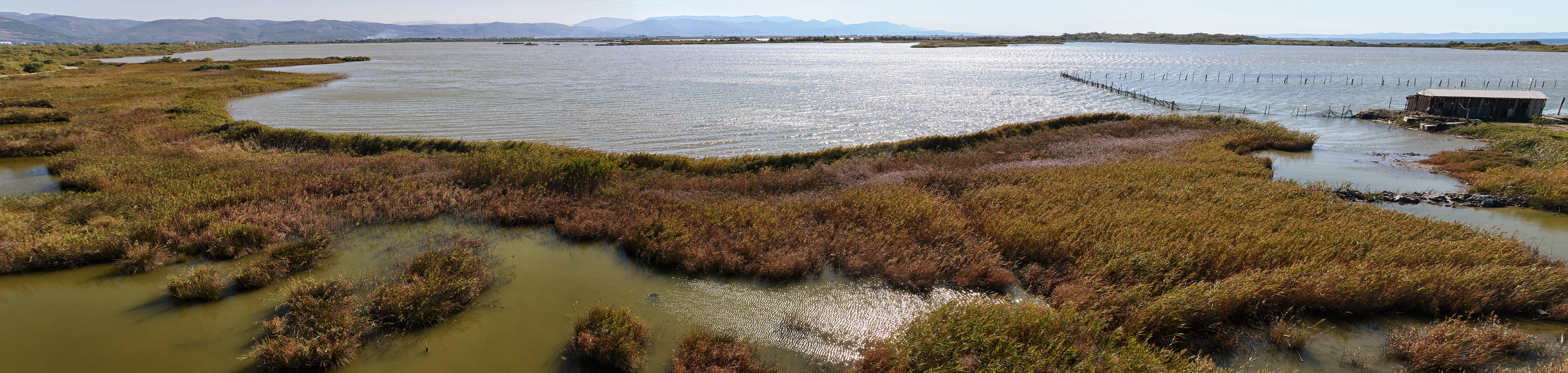 The Kunë-Vaine-Tale Nature Park in Albania